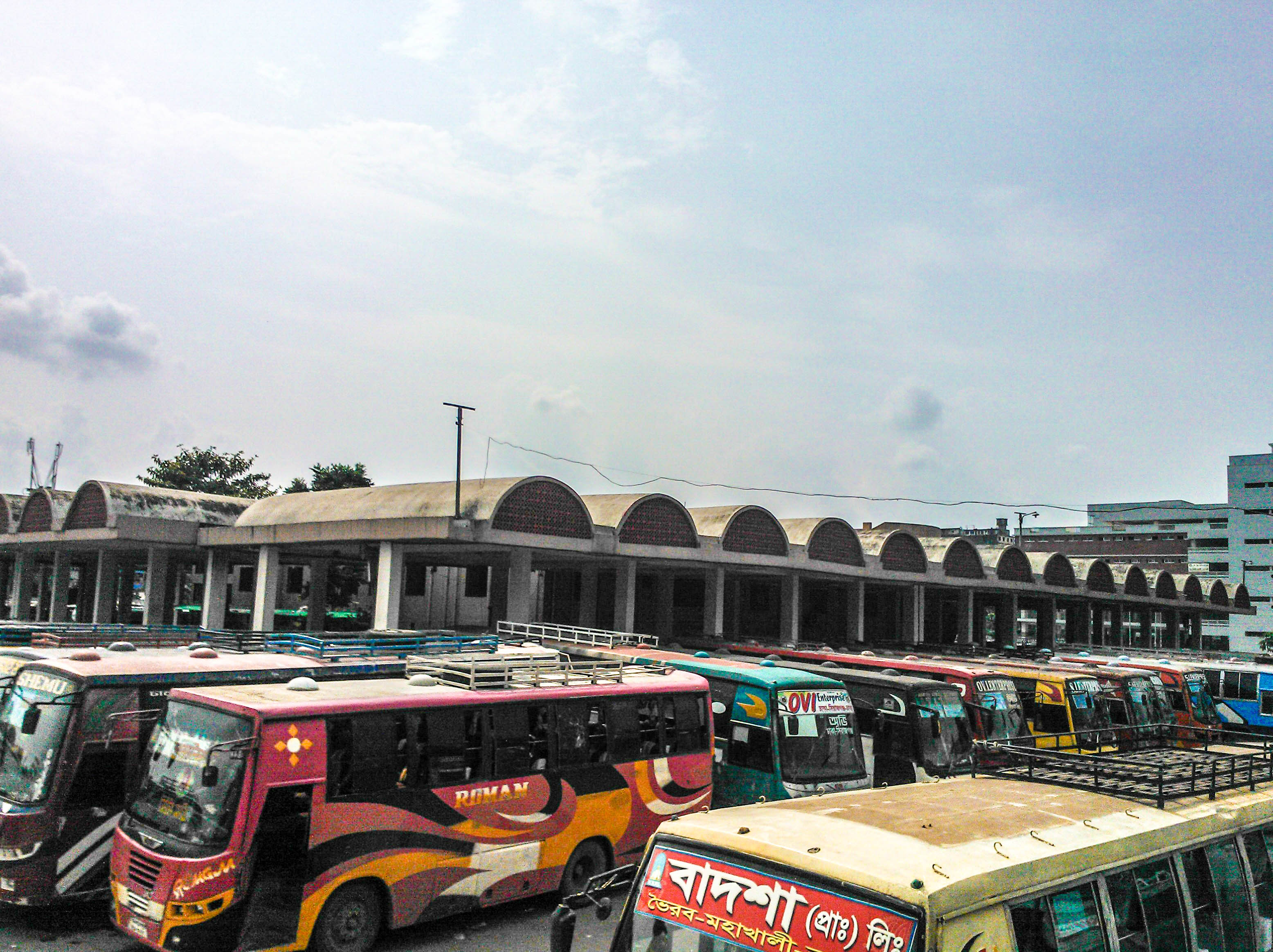 Mohakhali Bus Terminal, Dhaka.